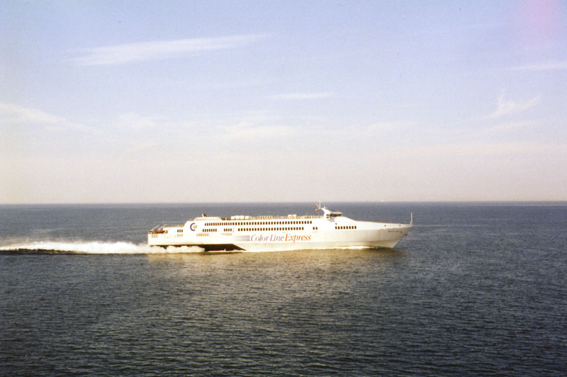 The Color Line fast ferry HSC Silvia Ana L (in old livery) in 22 July 1997 en route from Kristiansand (Norway) to Hirsthals (Denmark).